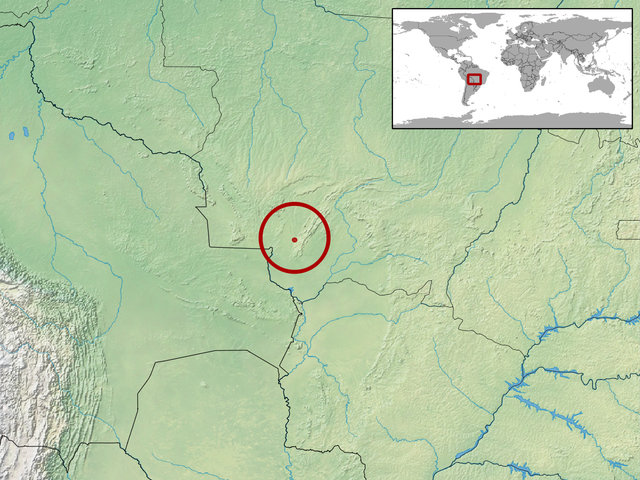 geographic distribution of Amphisbaena absaberi syn. Cercolophia absaberi (Native: Brazil)